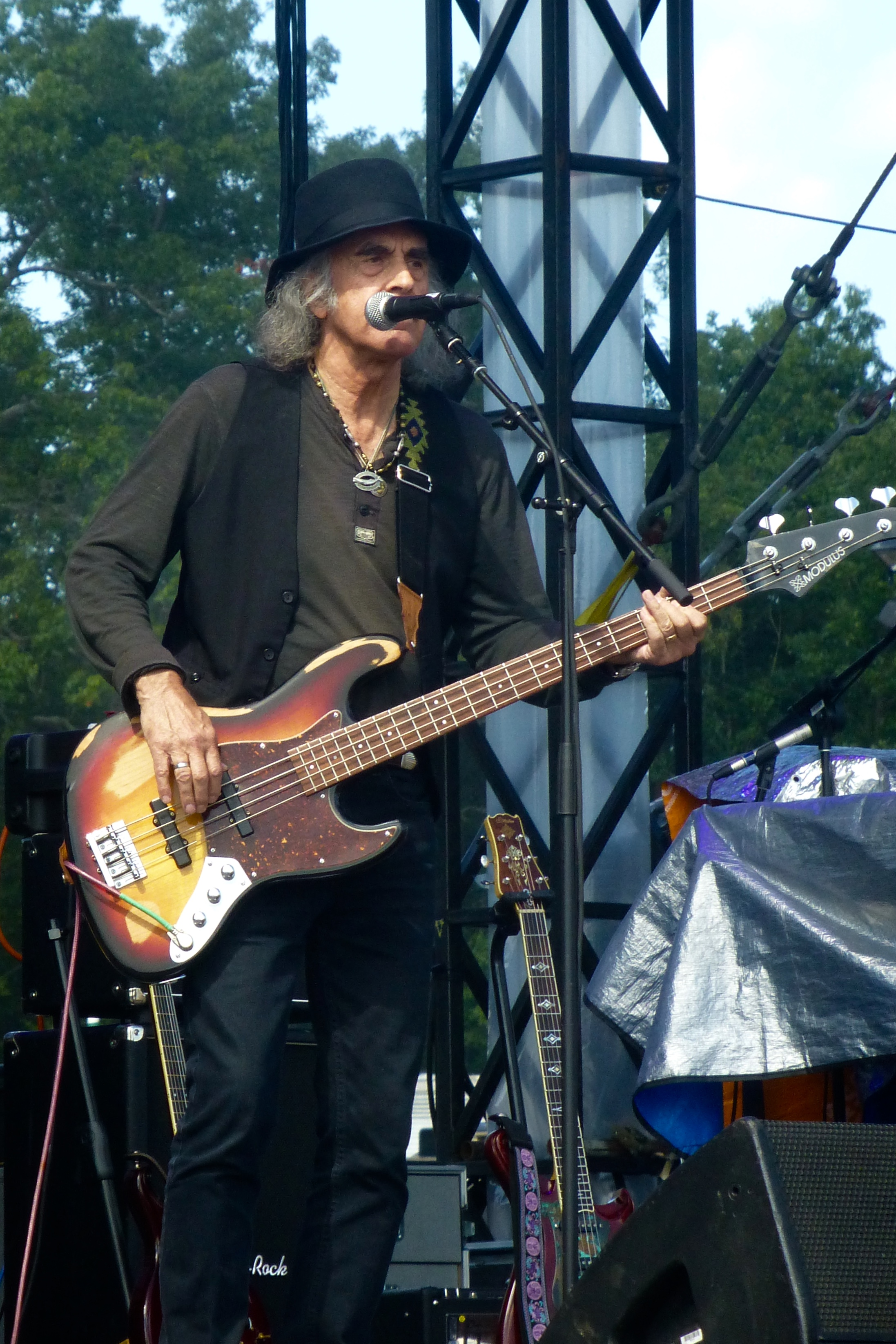 Moonalice